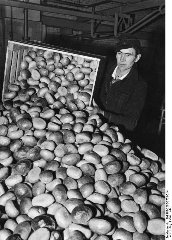 Translation of the original caption from the German Federal Archive: Hamburg, Donation for feeding the poor 10,000 white rolls for the old and needy From a donation of the Mennonites in the USA, 10,000 men and women in Hamburg over 70 years old receive a warm soup daily, and in addition a white roll. Similar provisions of food are found in all of the larger cities of the western zones. Our picture shows the arrival of the rolls at a distribution center. March 18, 1949 Illustration-dpd 2965-49